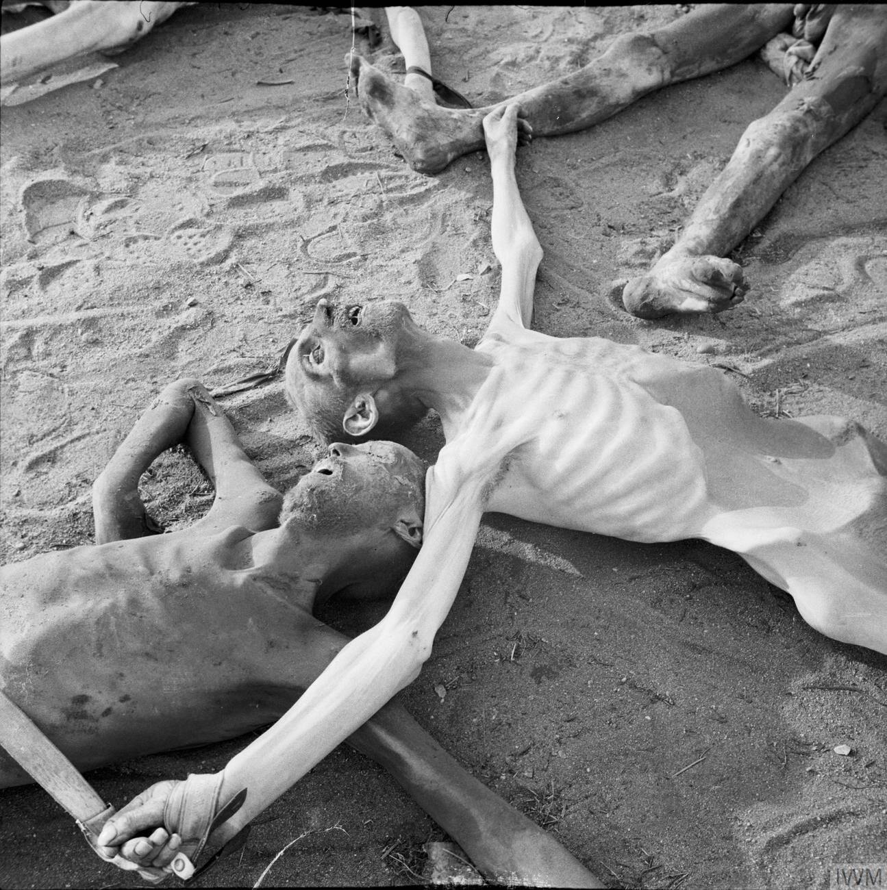 The Liberation of Bergen-belsen Concentration Camp, April 1945 The bodies of victims in Bergen-Belsen concentration camp.